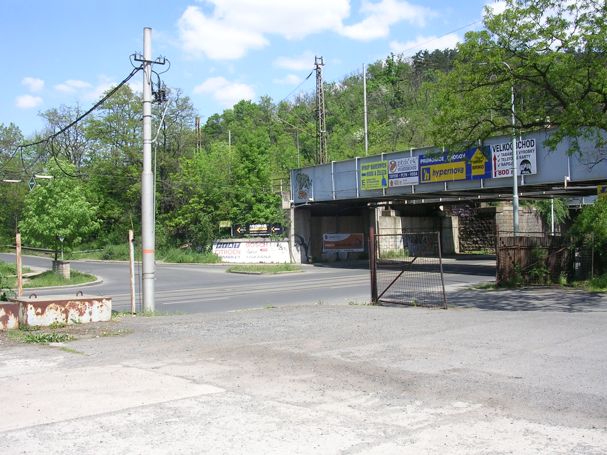 Michle, Prague, the Czech Republic. Railway bridges over U Plynárny Street.